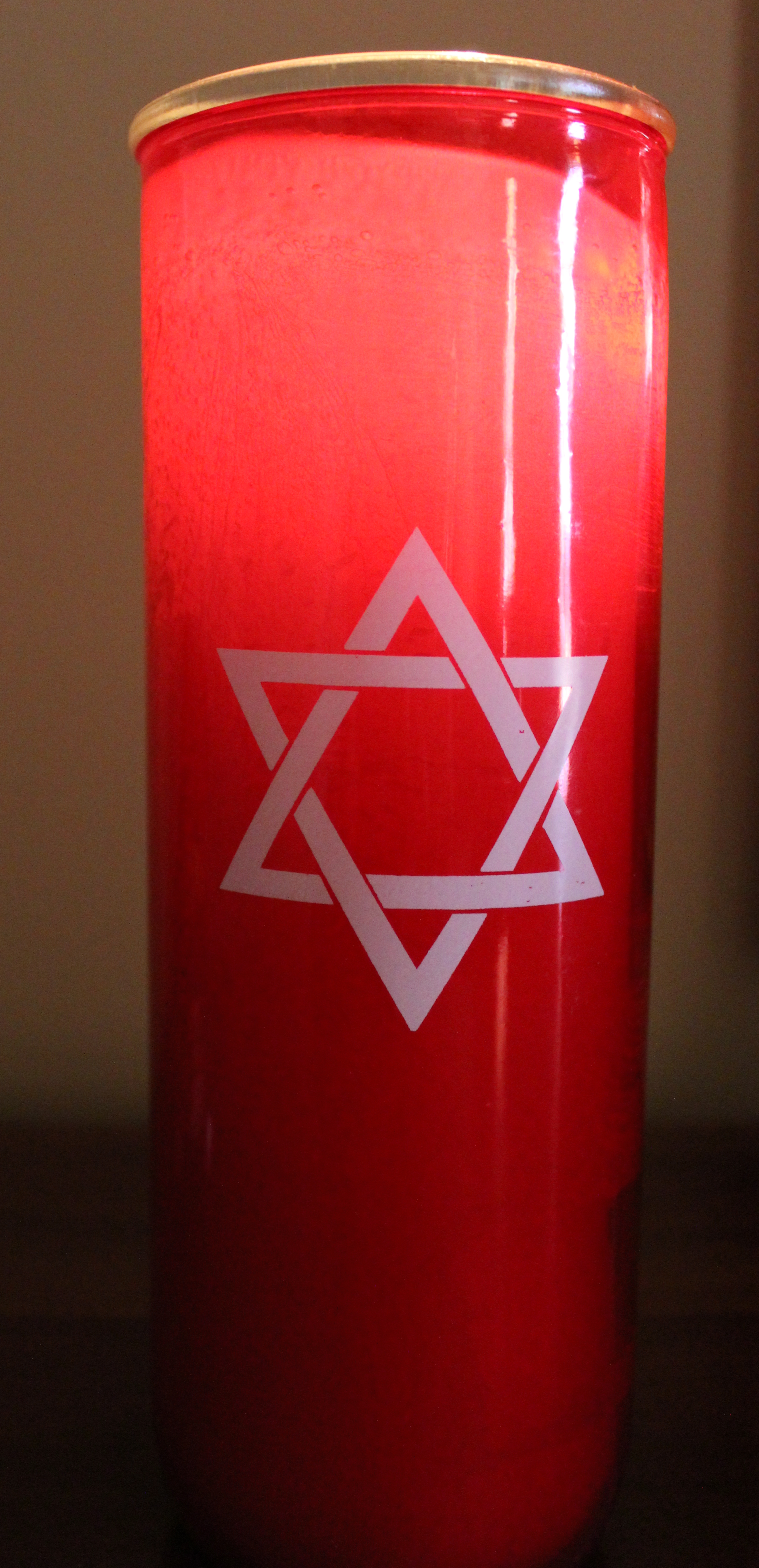 In Judaism, it's traditional to after someone has passed away. The candle lasts for seven days.